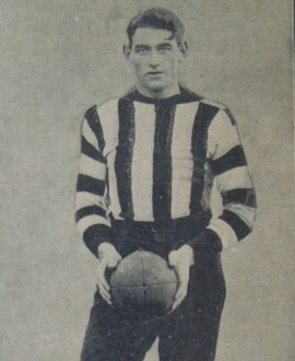 Photograph of Jack Shorten in 1910